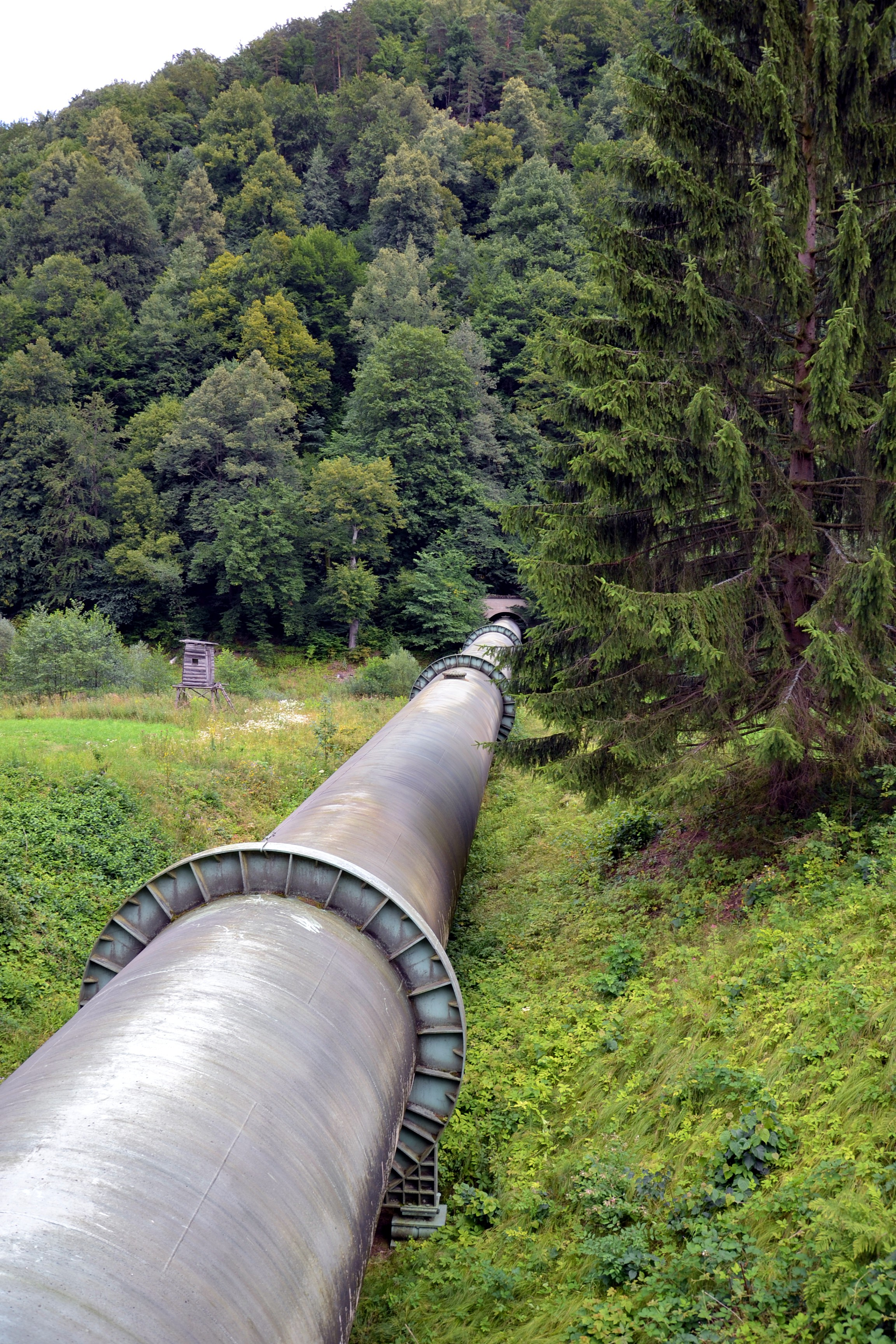 Water pipeline from the hydro power plant Dobra